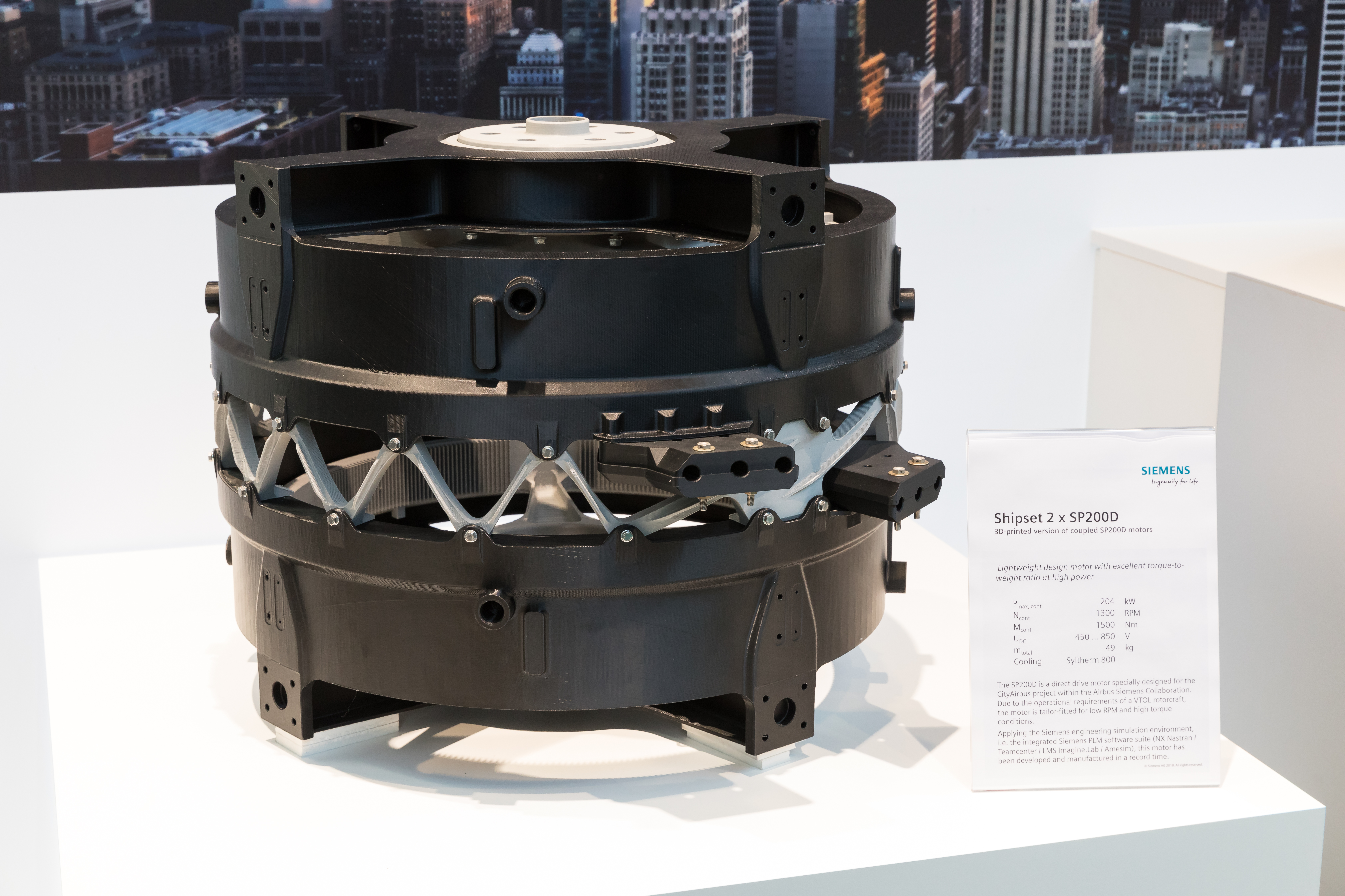 Siemens SP200D direct drive motor for aviation applications at AERO Friedrichshafen 2018